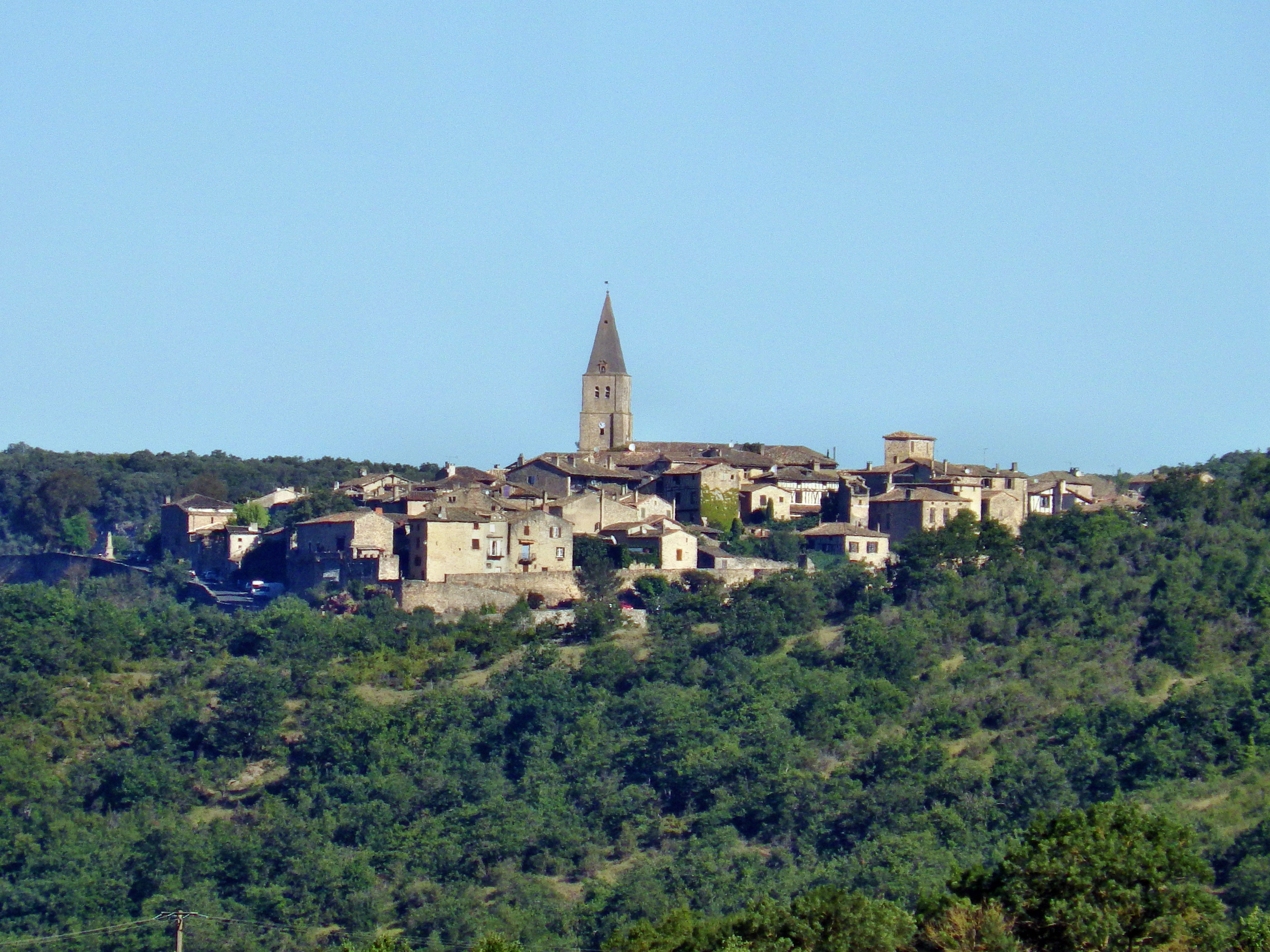 Puycelci Village taken from just below La Capelle hamlet,Tarn.